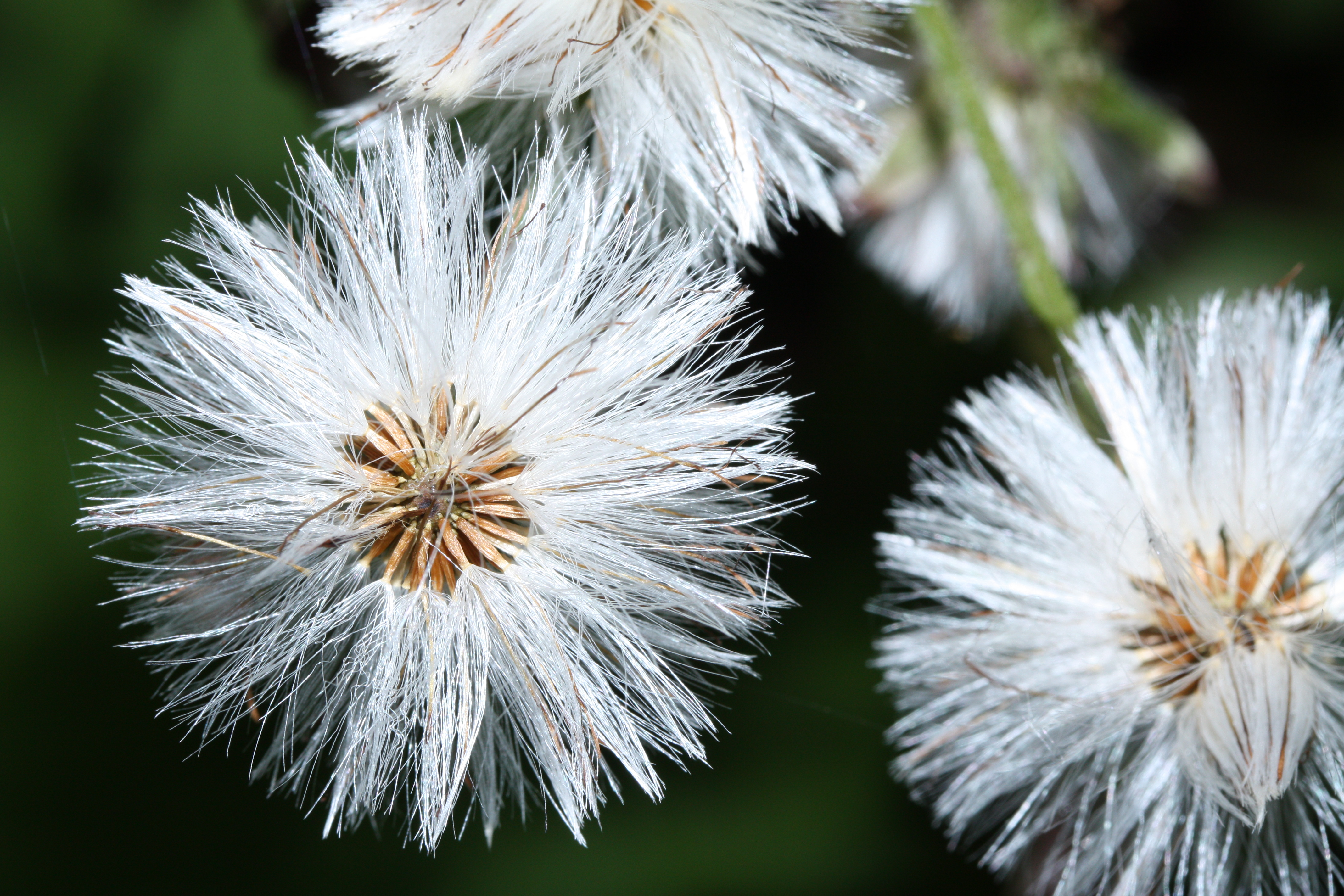 Sweet Coltsfoot, Alpine or Arctic Butterbur